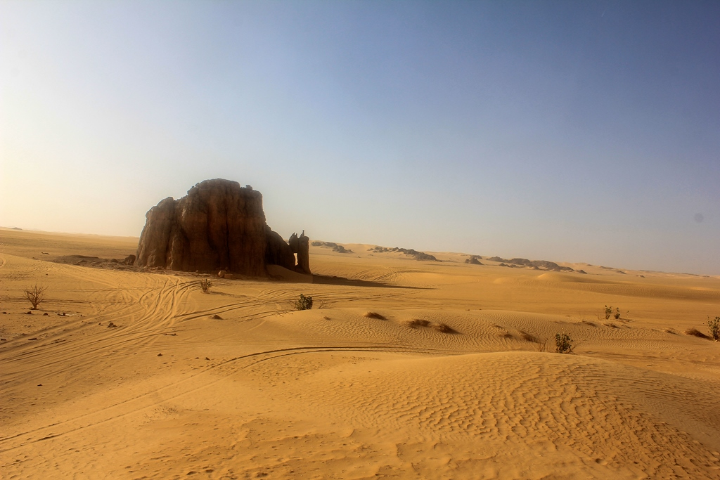 Erg Admer avec rocher des gravures de la vache qui pleure en arrière-plan